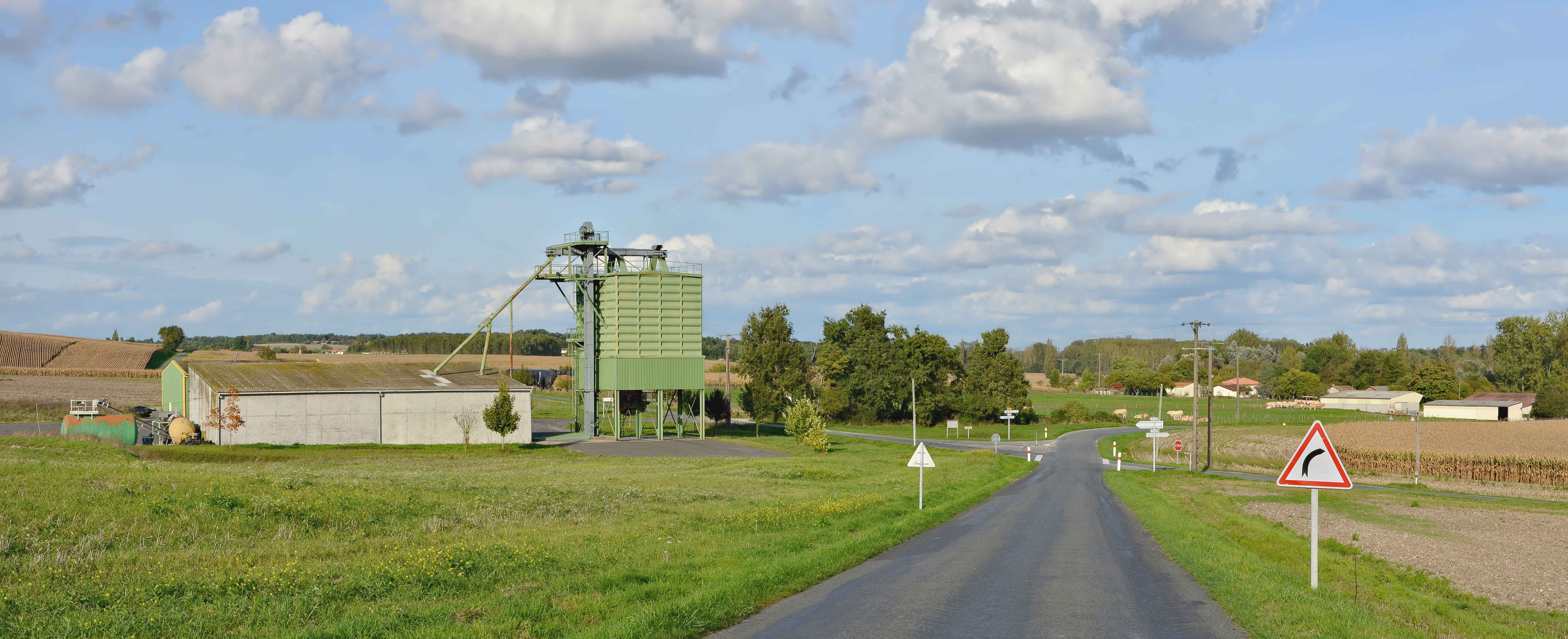 Road D 97 and a silo, Saint-Martial-Viveyrol, Dordogne, France.